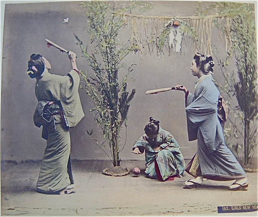 "GIRLS NEW YEAR"[1];Hand colored albumen print by Kusakabe Kimbei (1841–1934).